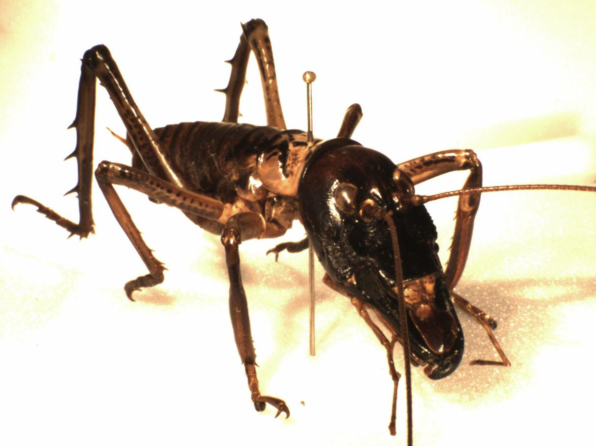 adult male Hemideina thoracica, Auckland tree weta